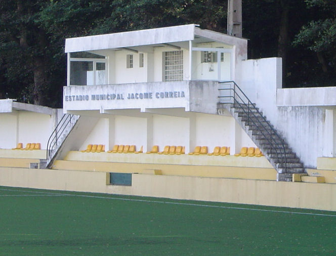 Campo Municipal Jâcome Correia - administration block. The stadium is used by Capelense Sport Club and Clube União Micaelense, Portuguese football clubs based in Ponta Delgada on the island of São Miguel in the Azores.